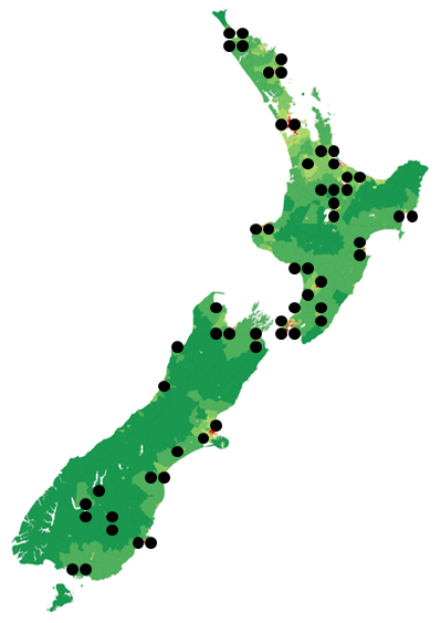 Map of RNZ National and New Zealand population density.